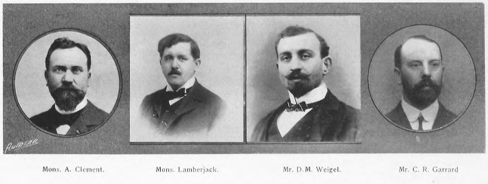 Portraits of the founders of London motor manufacturer Clément-Talbot. Adolphe Clement, Emile Lamberjack, Daniel Weigel and Garrard